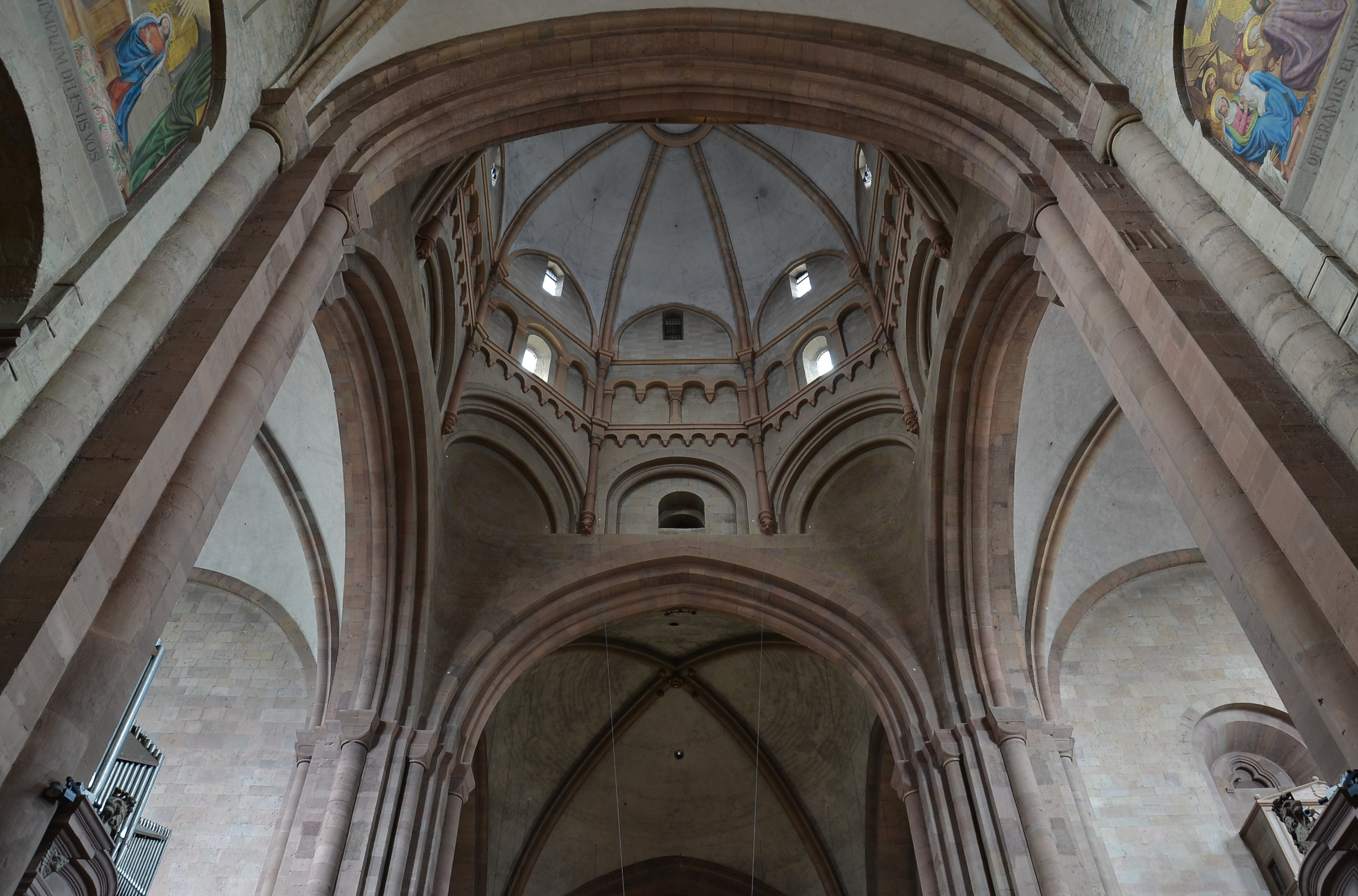 Interior of Mainz Cathedral - dome